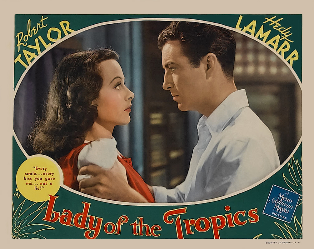 Lobby card from the 1939 film Lady of the Tropics.